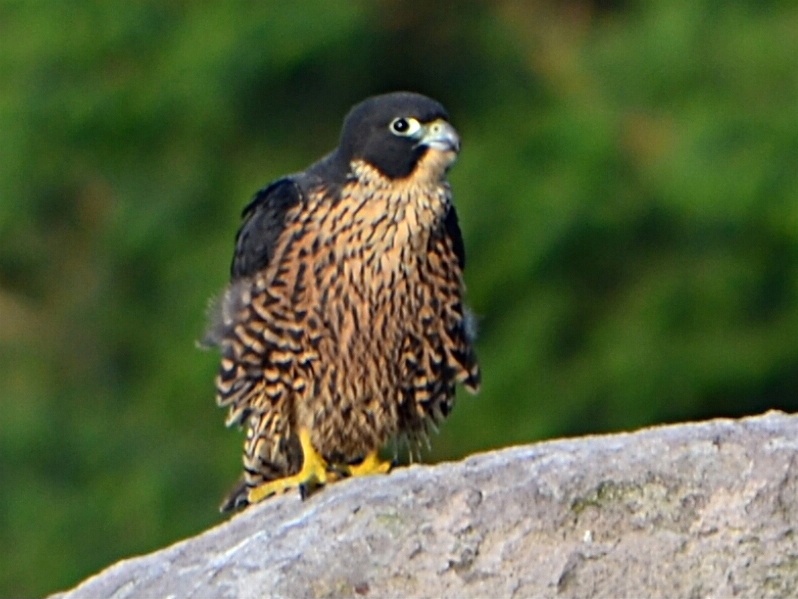 Juvenile of Peregrine Falcon subspecies ernesti in first year. Mount Mahawu, North Sulawesi